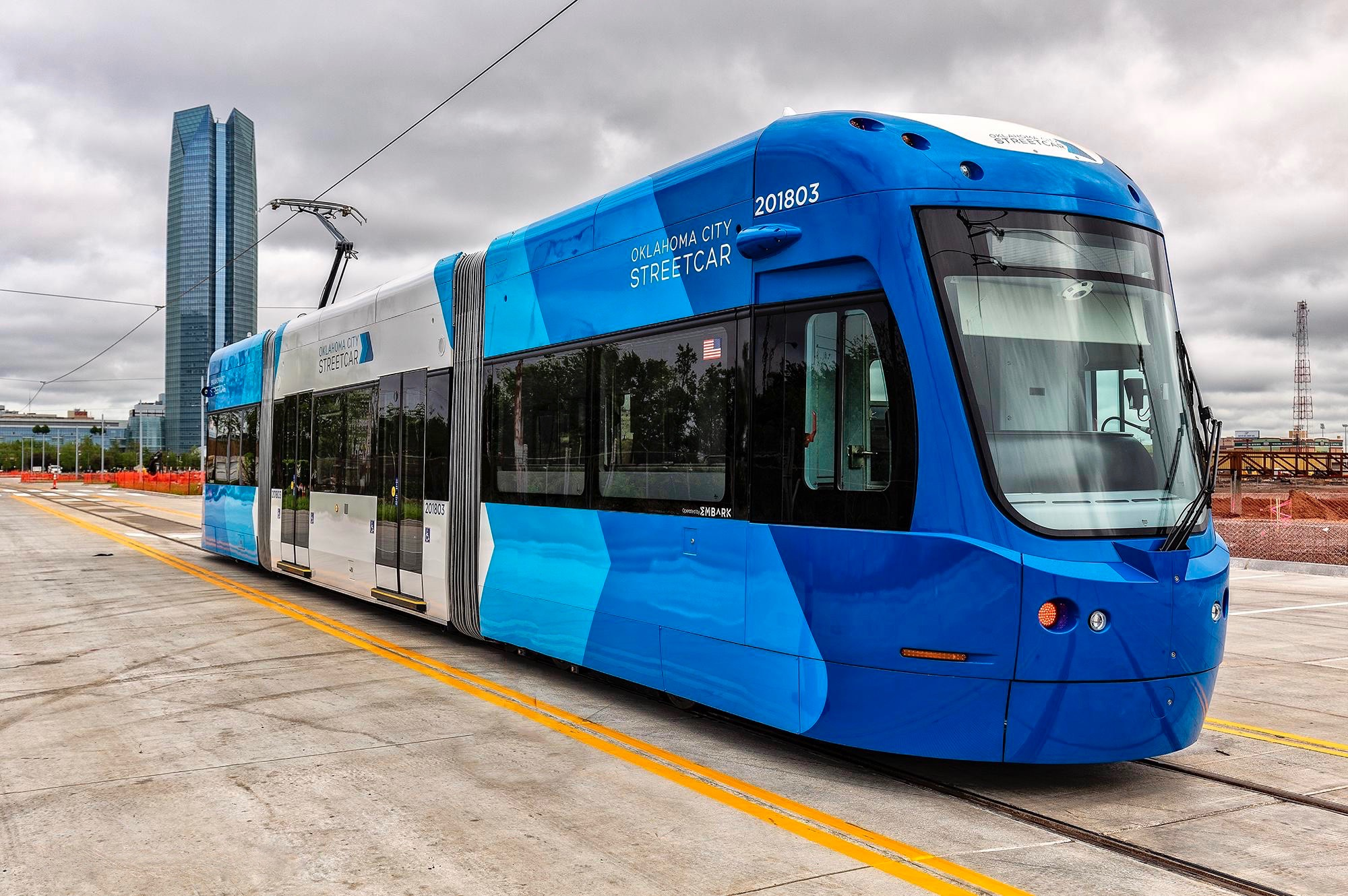 Car 201808 of the new Oklahoma City Streetcar line, which is under construction, during testing. It is a Brookville Liberty Modern Streetcar. The location is on South Hudson Avenue near SW 5th Street, on a section of track connecting the line with the maintenance facility.